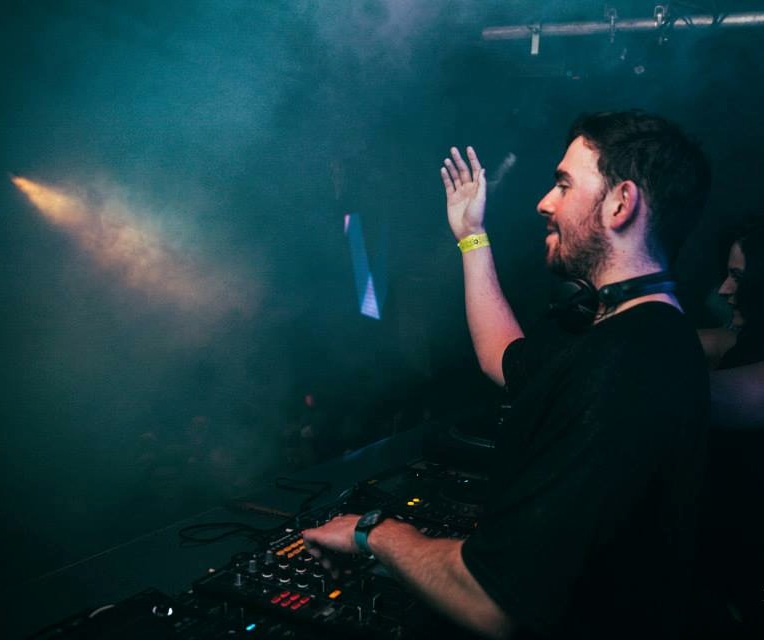 Patrick Topping DJing in Newcastle